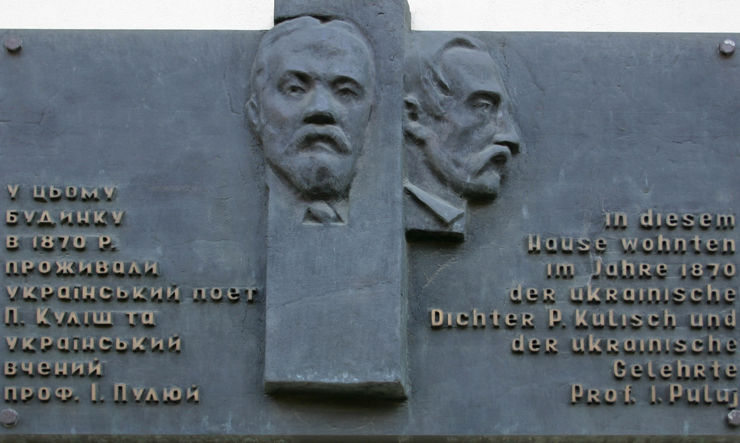 Plaque for Ivan Pulyui and Panteleimon Kulish (Wien, Skodagasse 9)